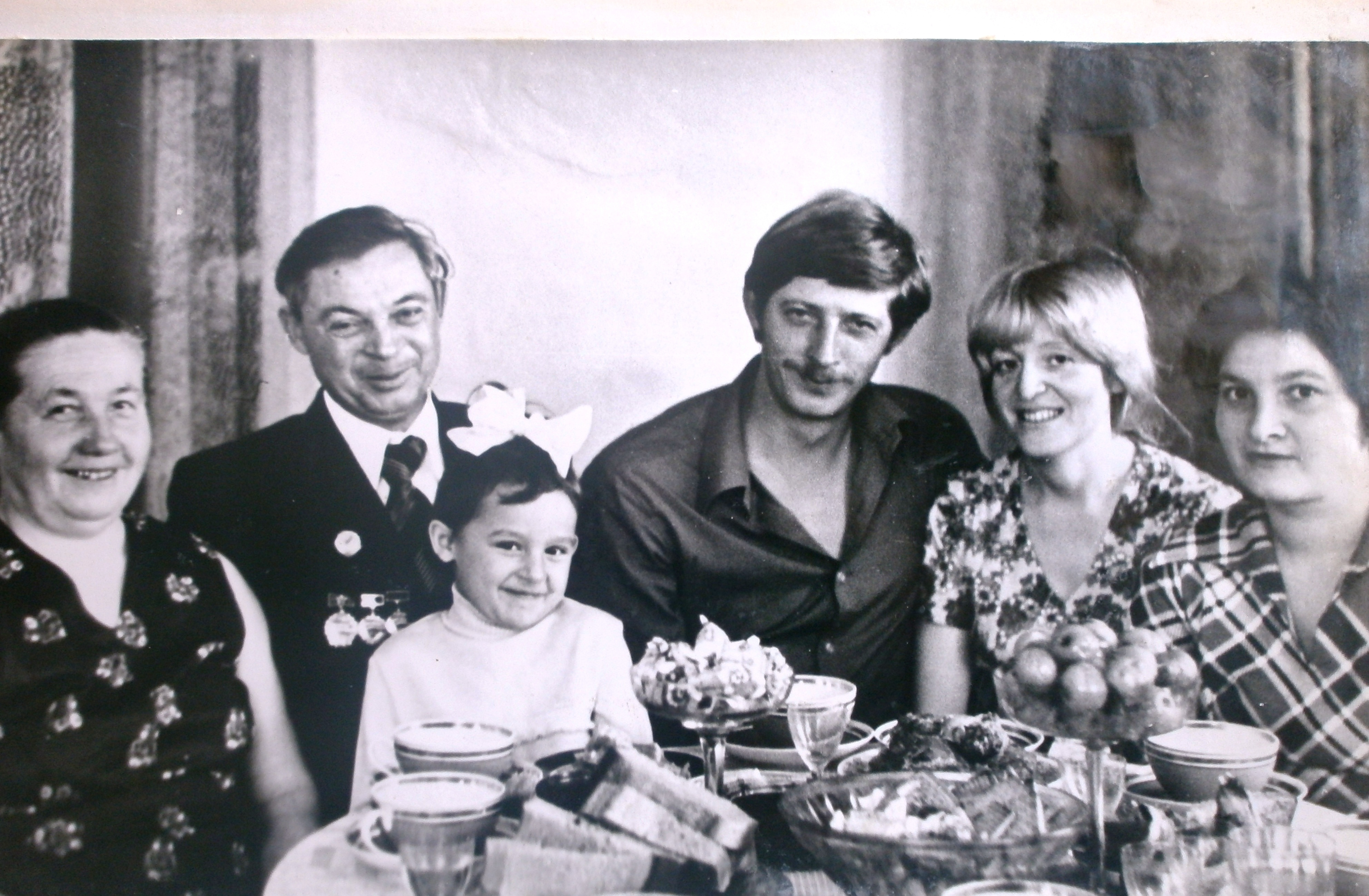 Nikolai Vasilyevich with family